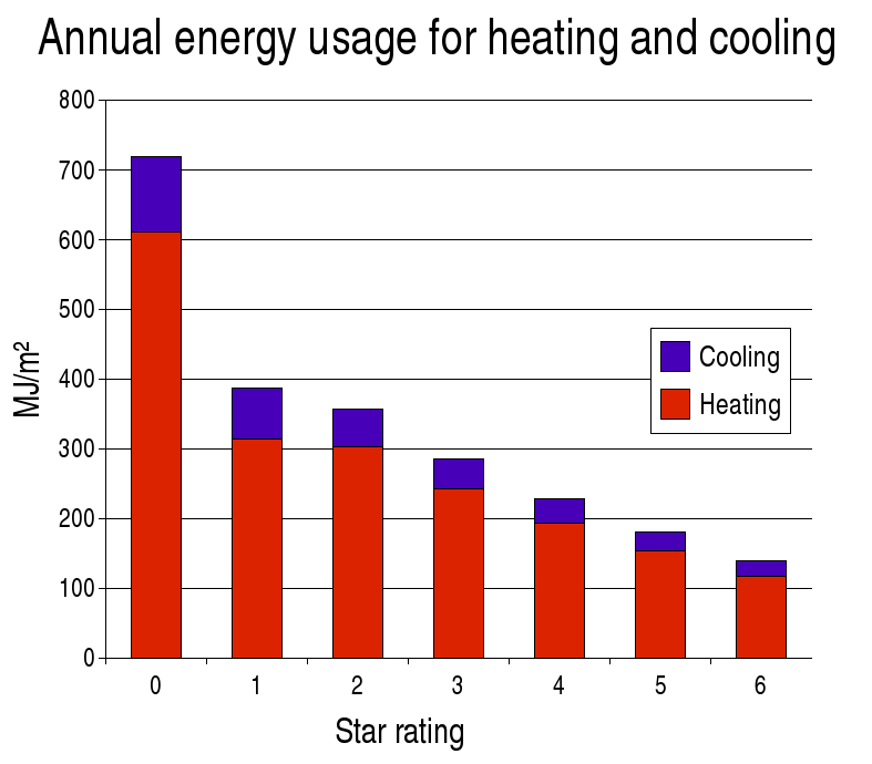 Winter: gas central heating to 21°C for 3hrs in the morning and 6hrs in the evening Summer: air conditioning to 25°C throughout the house Occupants will adjust their blinds and curtains to minimise energy use Windows and doors are shut during heating and cooling The information is provided as a guide only. Actual energy consumption will depend on the area of the house, the individual style of occupancy and the efficiency of appliances. Annual energy usage (MJ/m2) for heating and cooling. Graph by User:Pengo. Made using and The GNU Image Manipulation Program. From data at the ACT Planning and Land Authority web site [1] Dual licensed: GFDL, cc-by-sa-2.5.